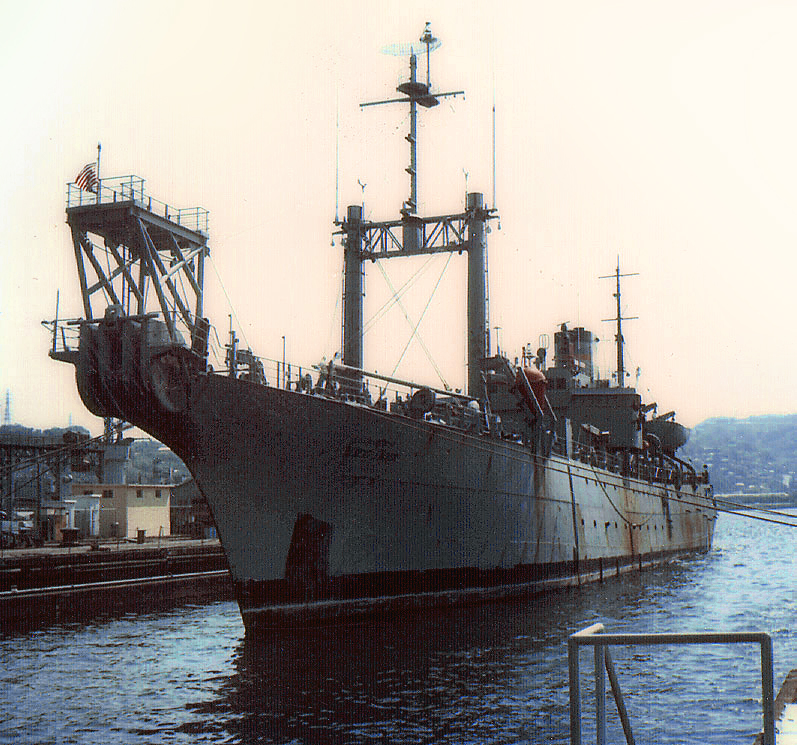 USNS Albert J. Myer (T-ARC-6) in Japan, circa May 1976.